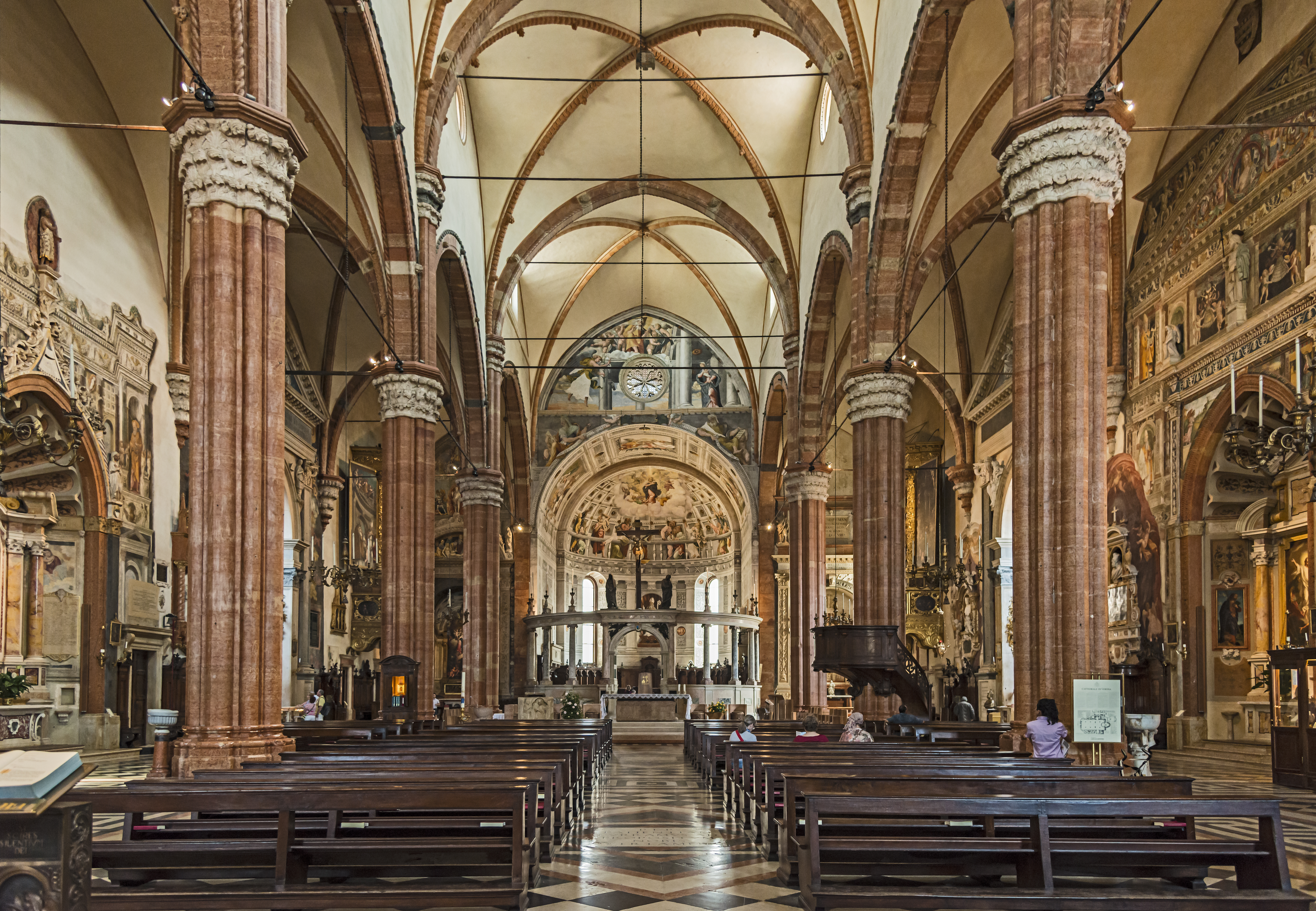 Cathedrale Santa Maria Matricolare - central nave